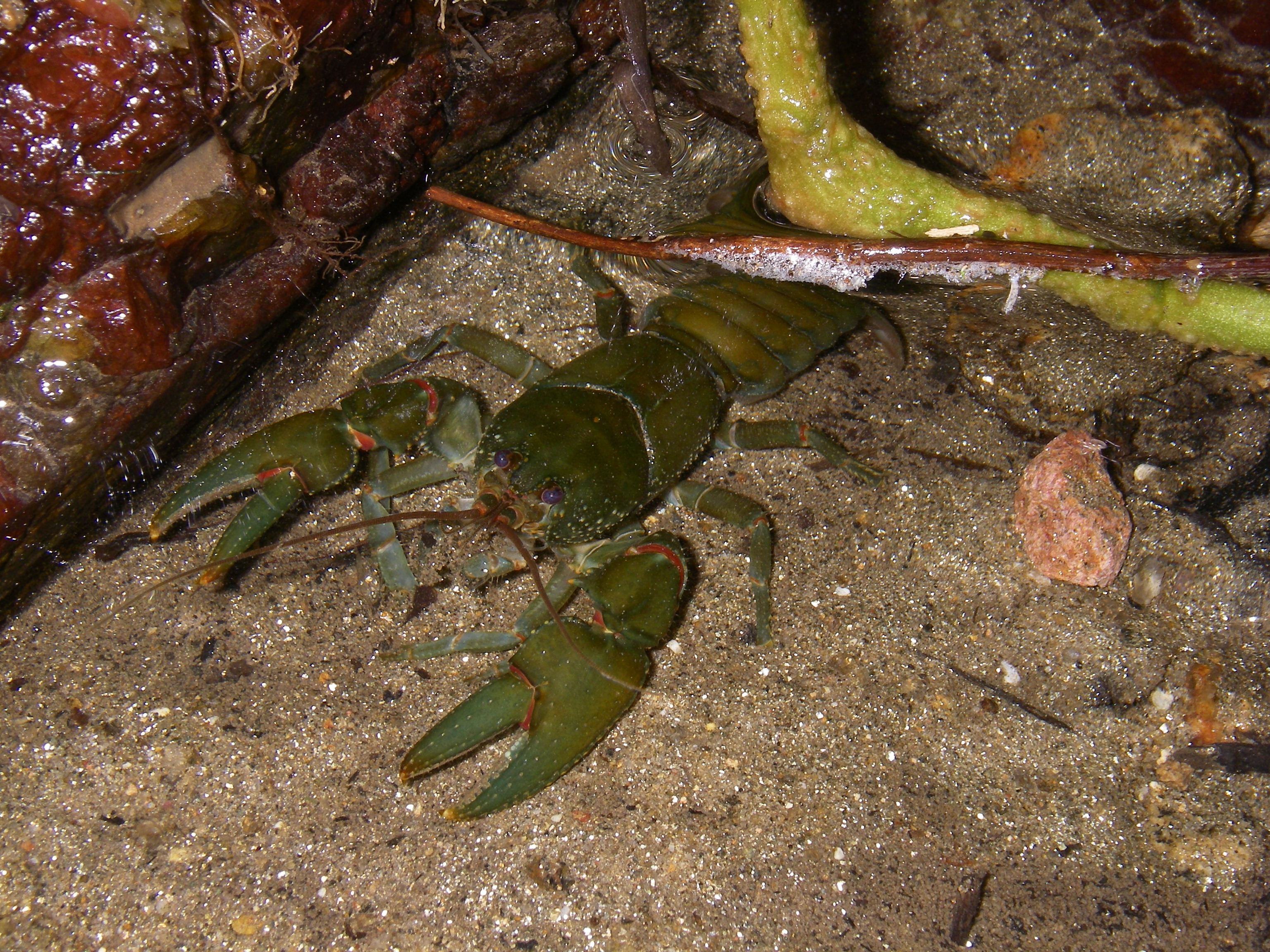 Astacoides betsileoensis(Parastacidae) from a small stream at Bibiango, Ranomafana National Park, Madagascar